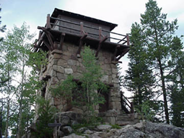 Front of the Shadow Mountain Lookout, located southeast of Grand Lake in the Grand County portion of Rocky Mountain National Park in the U.S. state of Colorado. Built in 1932, it is listed on the National Register of Historic Places.